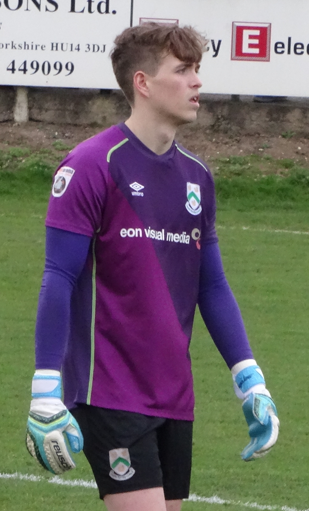 Rory Watson playing for North Ferriby United against Solihull Moors at Grange Lane, North Ferriby on 18 March 2017